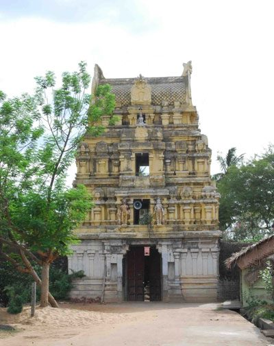 Jayankondam Siva temple